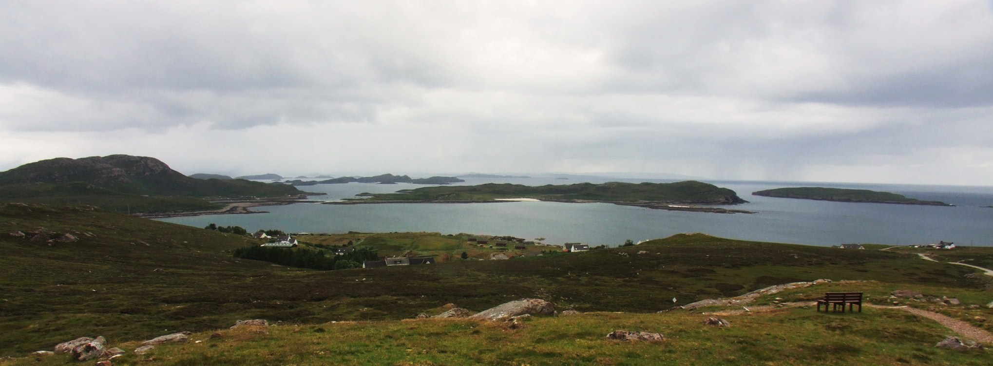 Isle Ristol in Loch an Alltain Duibh, Summer Isles, WesterRoss Scotland